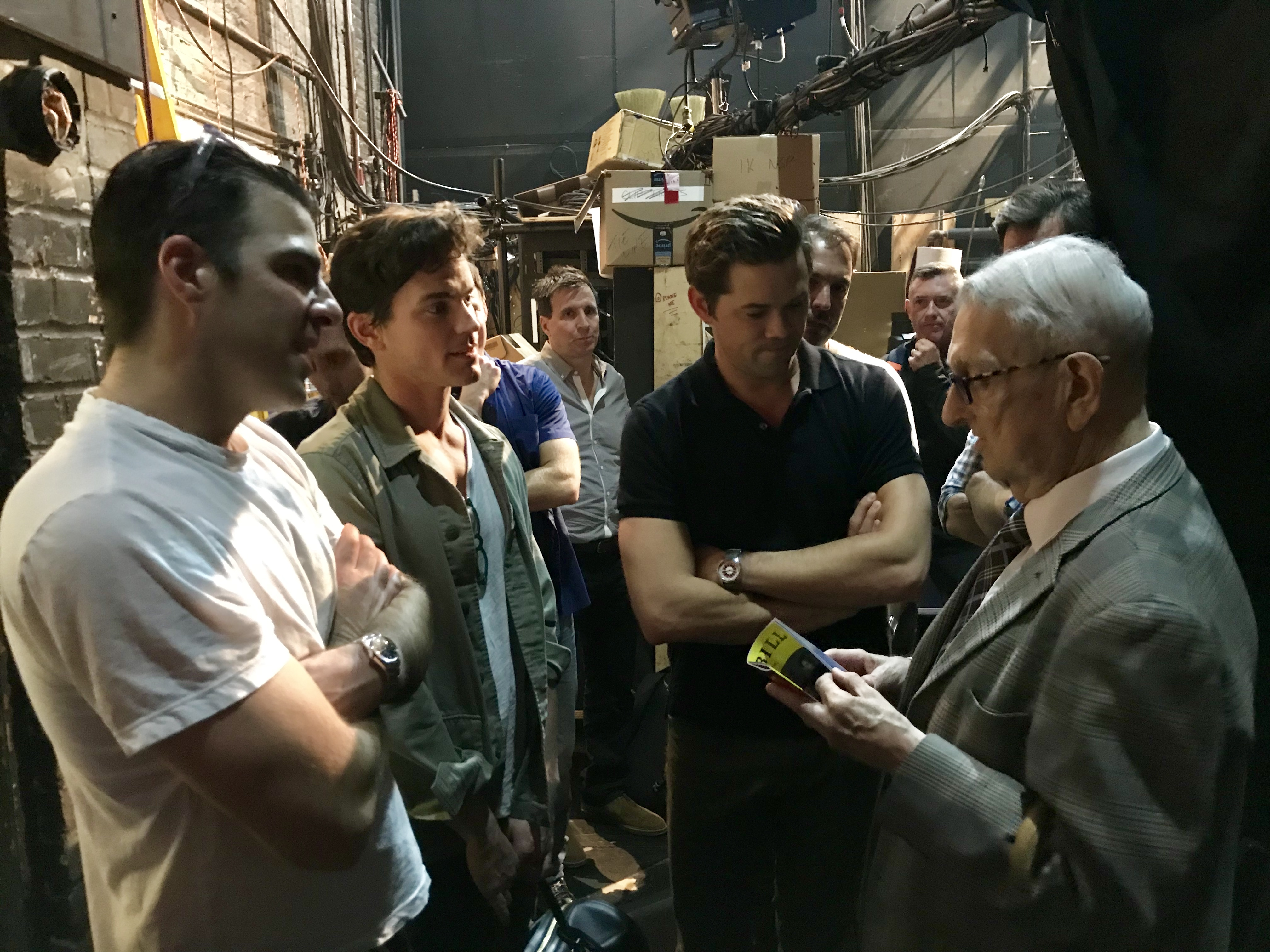 Dick Leitsch backstage with Zachary Quinto, Matt Bomer and Andrew Rannells during the production of The Boys in the Band. The cast wanted to meet and speak with Dick Leitsch to hear about his gay rights work.